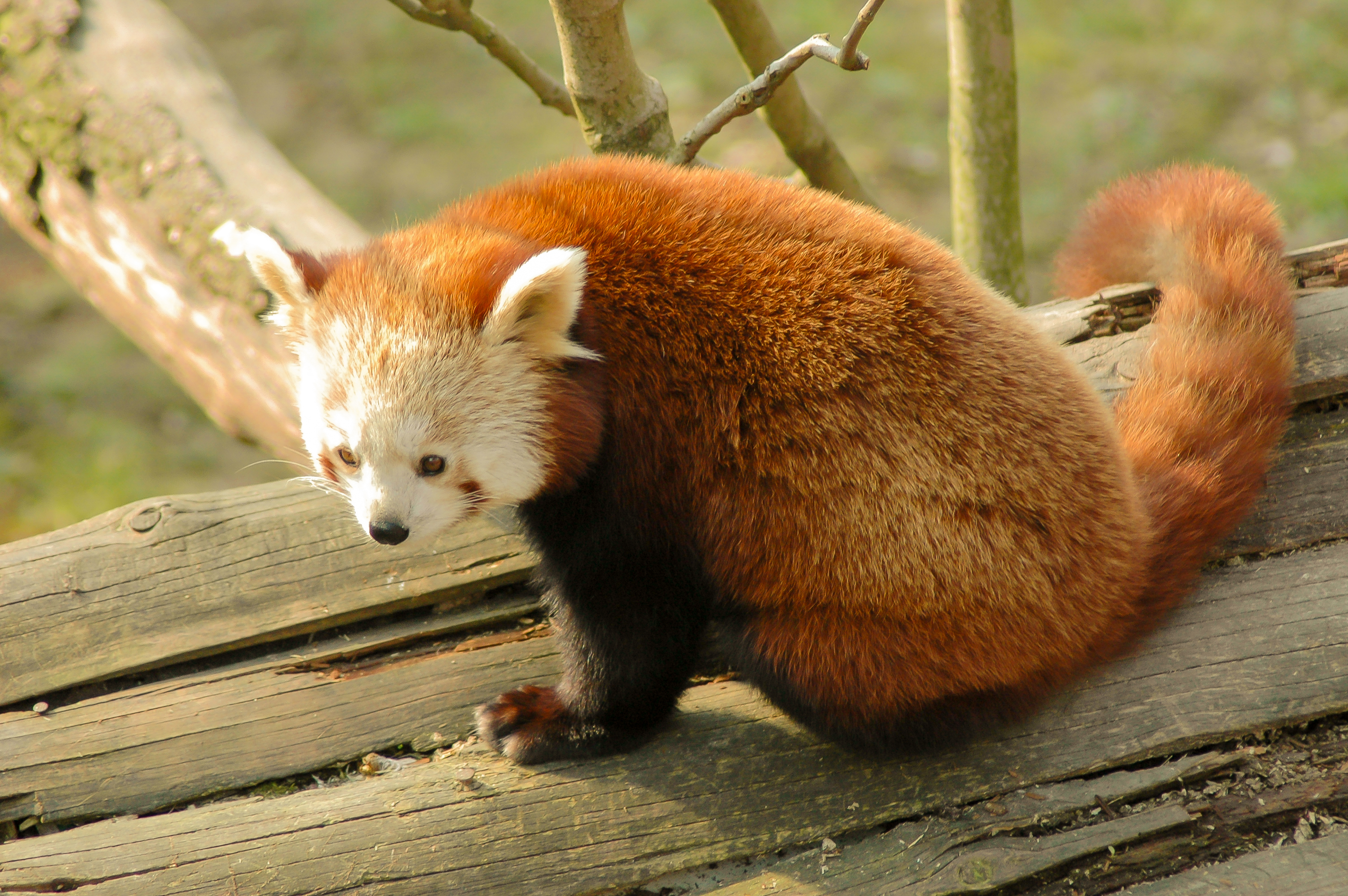 Red Panda from the Natura Viva Park of Pastrengo, Verona, Italy